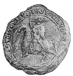 Seal of Kazimierz Kujawski